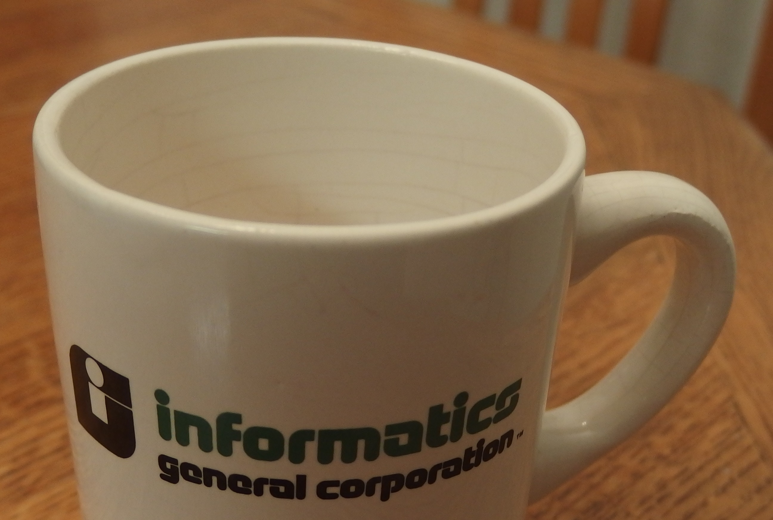 Mug branded with the Informatics General Corporation name, from the early 1980s.